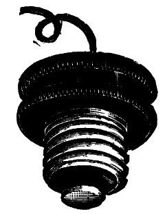 GEC Lampholder Plug, as illustrated in the 1893 GEC Catalogue